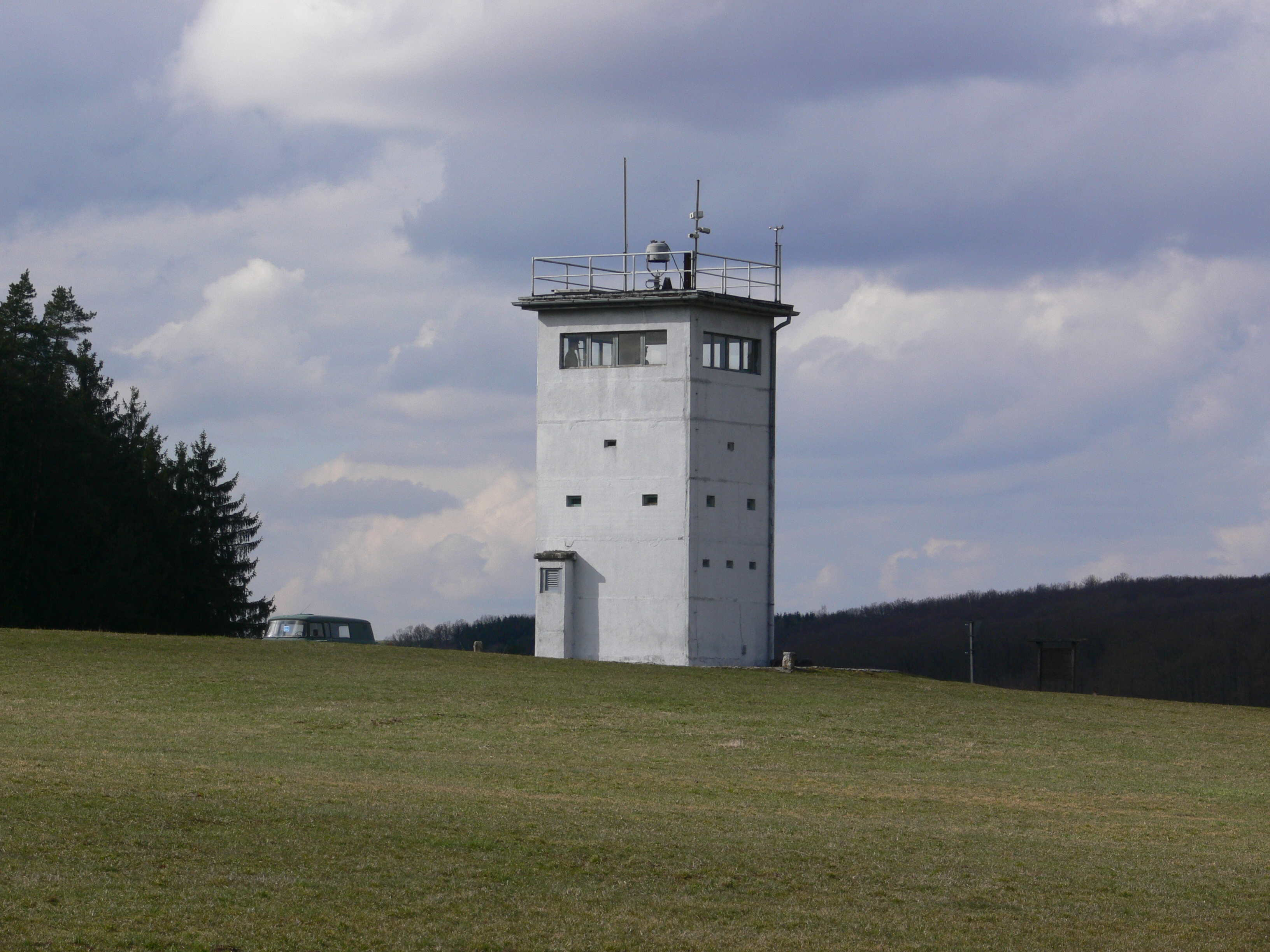 Watchtower of the Führungstelle (command tower) type at the Deutsch-deutsches Freilandmuseum Behrungen, in Thuringia.